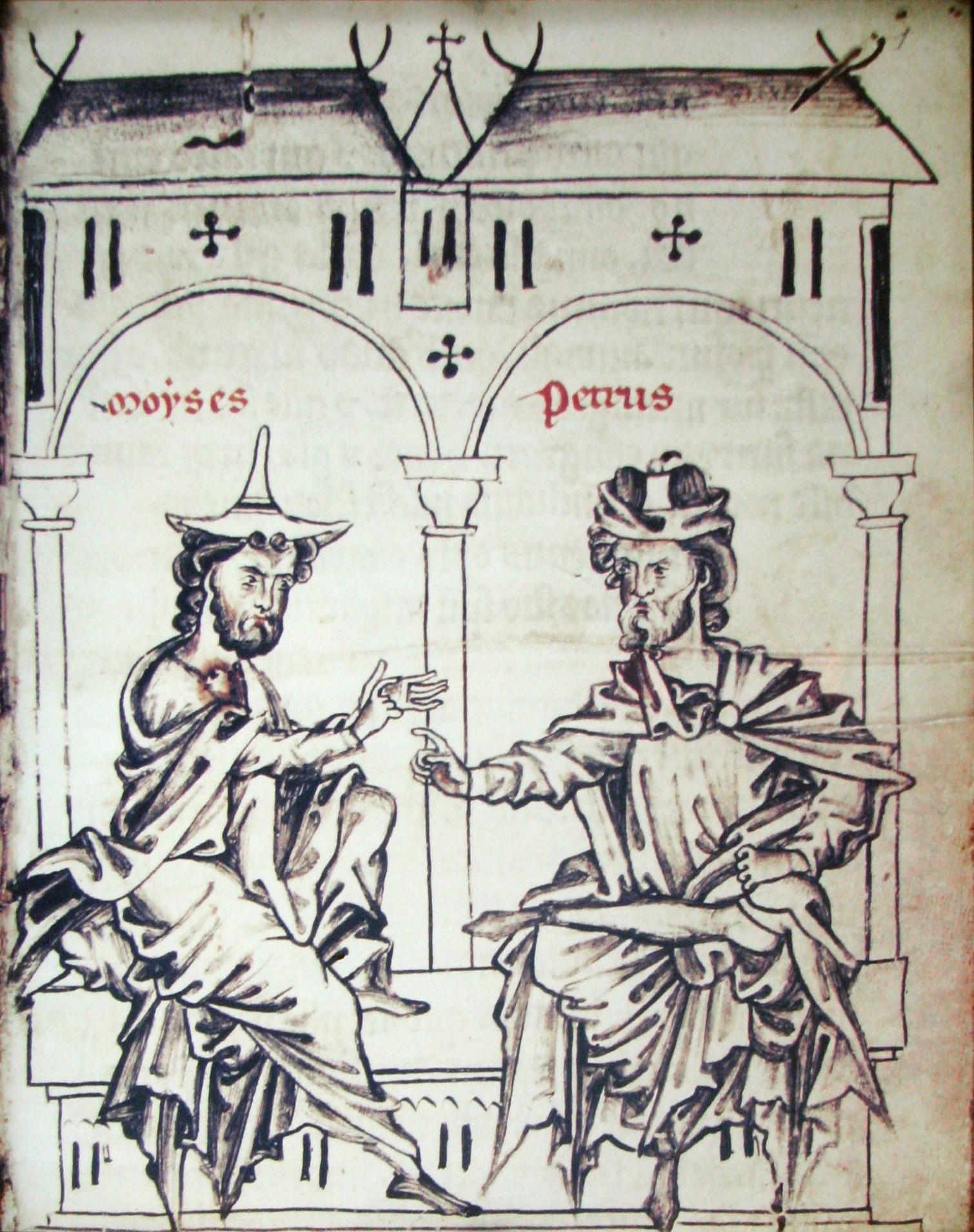 A 13th century Belgian Manuscript illustrating the dialogue between the jew "Moyses" and the Christian "Petrus". Illustration of "Dialogi contra Iudaeos" written by Petrus Alphonsi. This is a photograph of an exhibit at the Diaspora Museum, Tel Aviv Beit Hatefutsot. (Photo taken by User:Sodabottle)